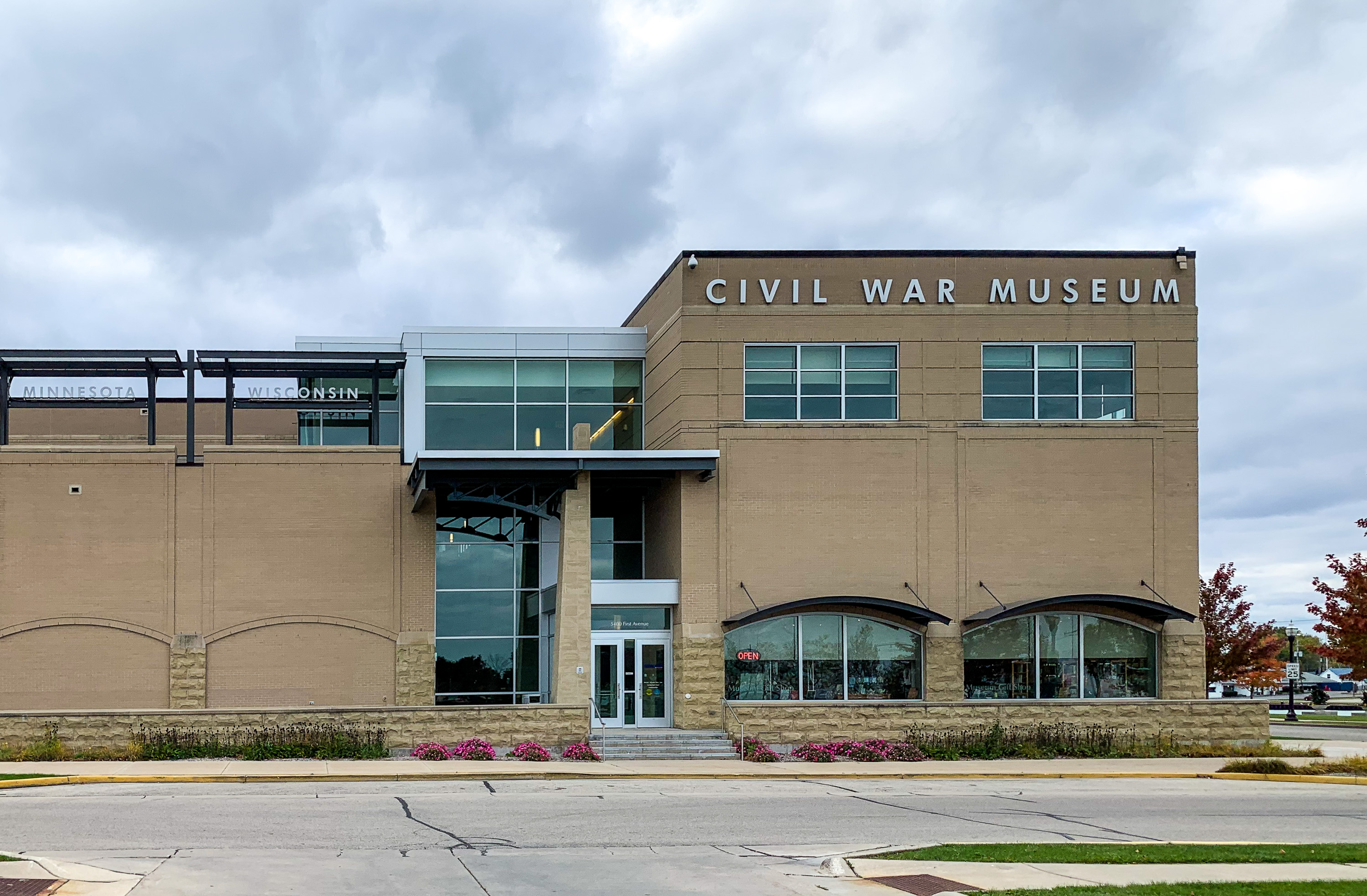 Civil War museum in Kenosha, Wisconsin